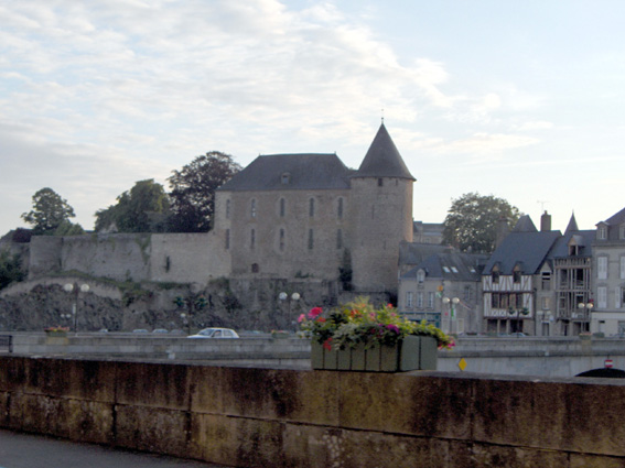 The town of Mayenne in the department of Mayenne.